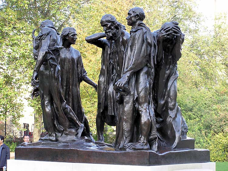 The Burghers of Calais by Auguste Rodin, in Victoria Tower Gardens, London, England. Under French law no more than twelve casts of this piece were permitted after Rodin’s death. The London casting, purchased by the British Government in 1911, is one of those. Rodin often duplicated parts of his statues. For example two of the heads on this grouping are identical and a third only slightly altered. Some of the hands are used twice. Taken by Adrian Pingstone in November 2004 and released to the public domain.